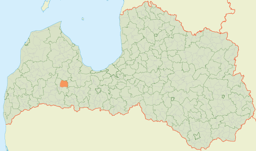 Location of Remte Parish in Latvia